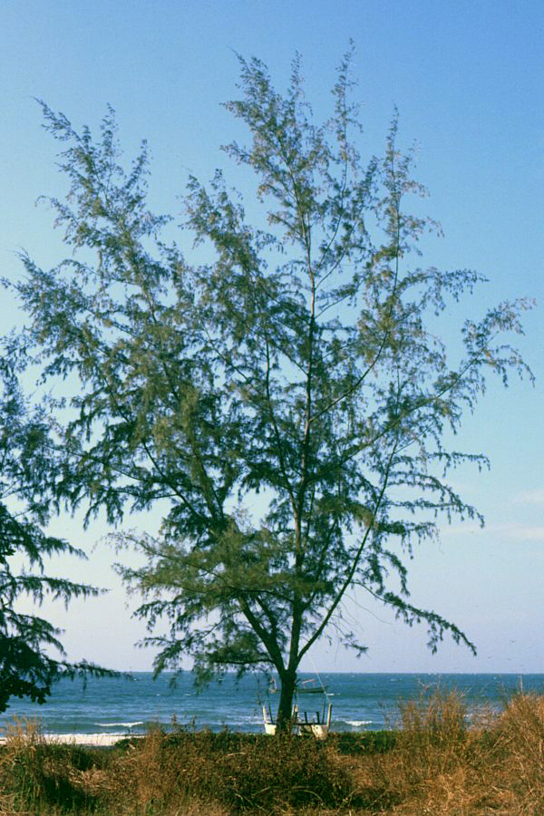 Casuarina equisetifolia, Casuarinaceae - Kambodscha/Cambodia, Lamherkay Beach bei Sihanoukville